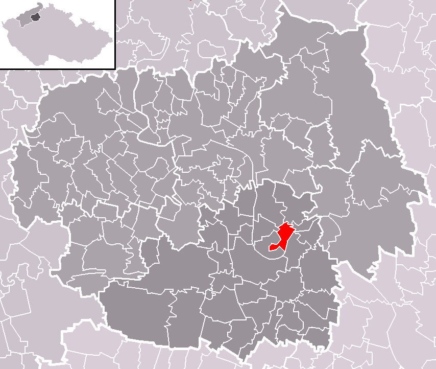 Location of Kyškovice municipality within Litoměřice District and administrative area of Roudnice nad Labem as a Municipality with Extended Competence.